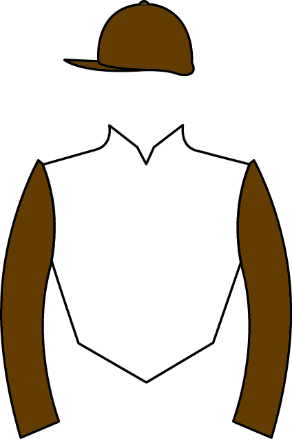 Horse racing silks